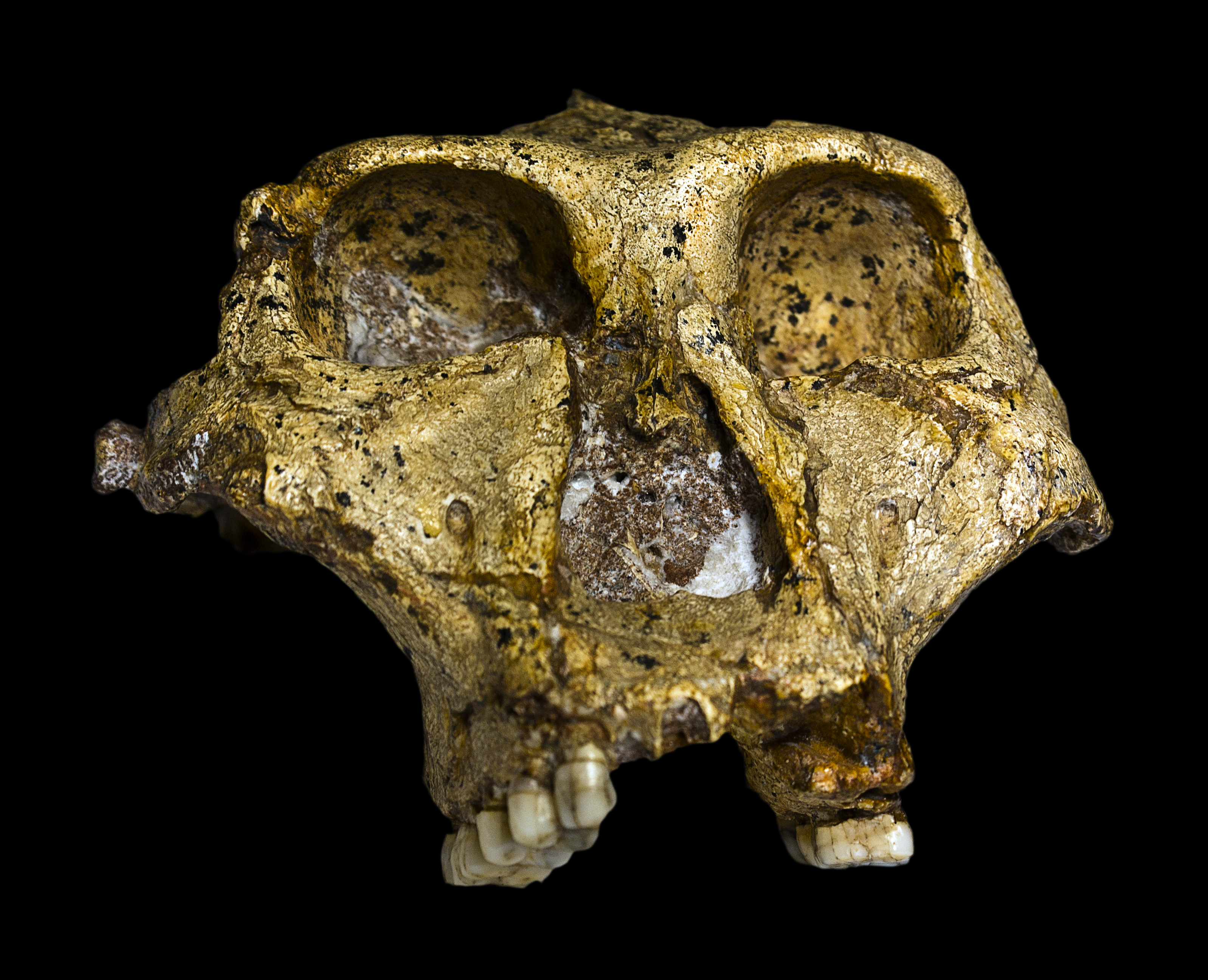 The original complete skull (without mandible) of a 1,8 million years old Paranthropus robustus (SK-48 Swartkrans (26°00'S 27°45'E), Gauteng,), discovered in South Africa . Collection of the Transvaal Museum, Northern Flagship Institute, Pretoria South Africa.